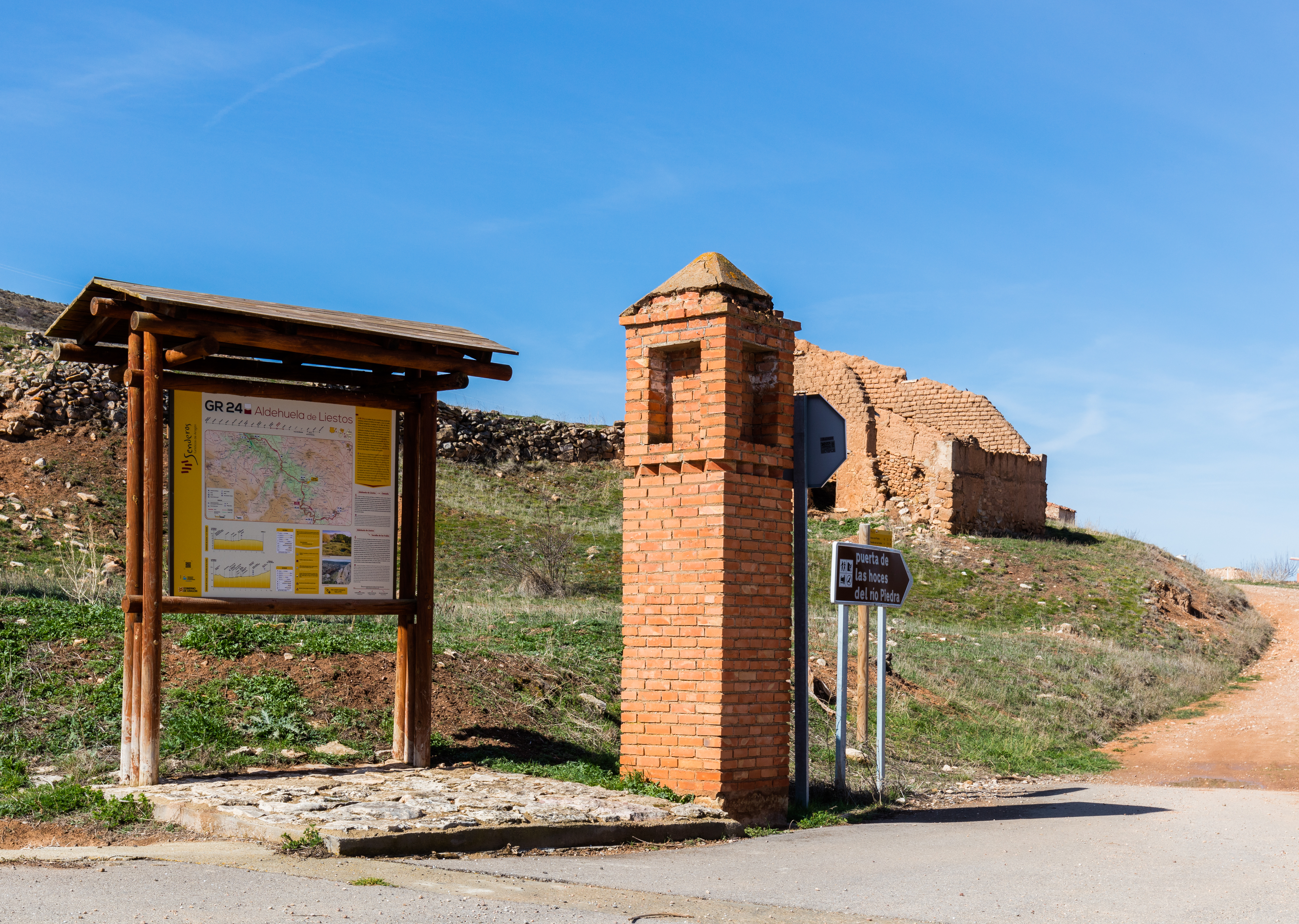 Wayside cross of St Roque, Aldehuela de Liestos, Zaragoza, Spain